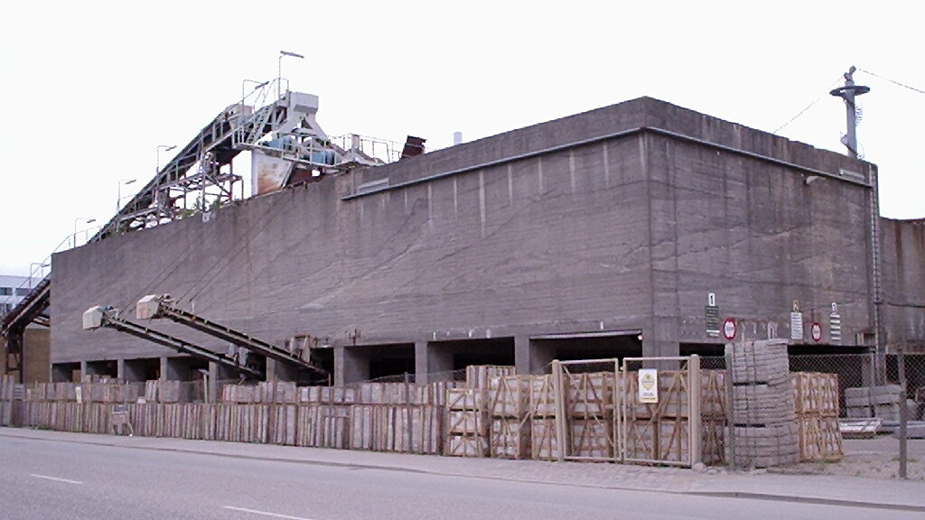 This silo contains 27 variations of sand and gravel. Picture from Copenhagen september 14, 2005 (camera date not correct)